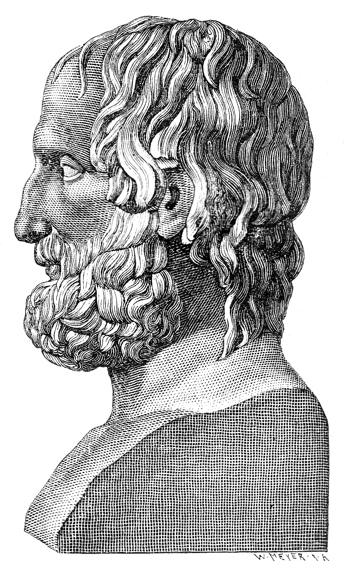 Illustration from Illustrerad verldshistoria utgifven av E. Wallis. (Volume I): "Euripides."